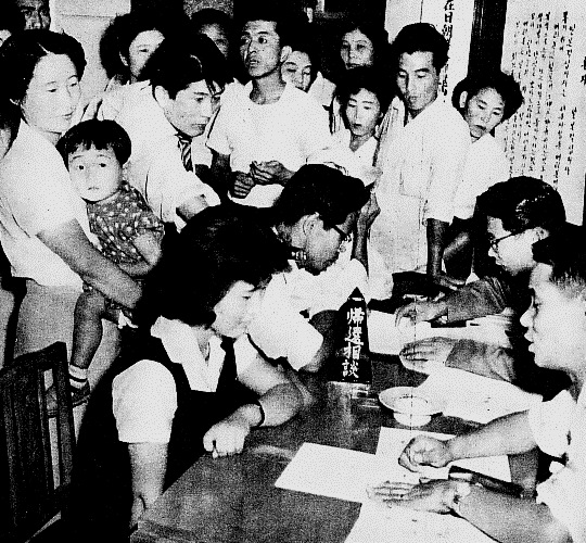 Repatriation of Koreans from Japan